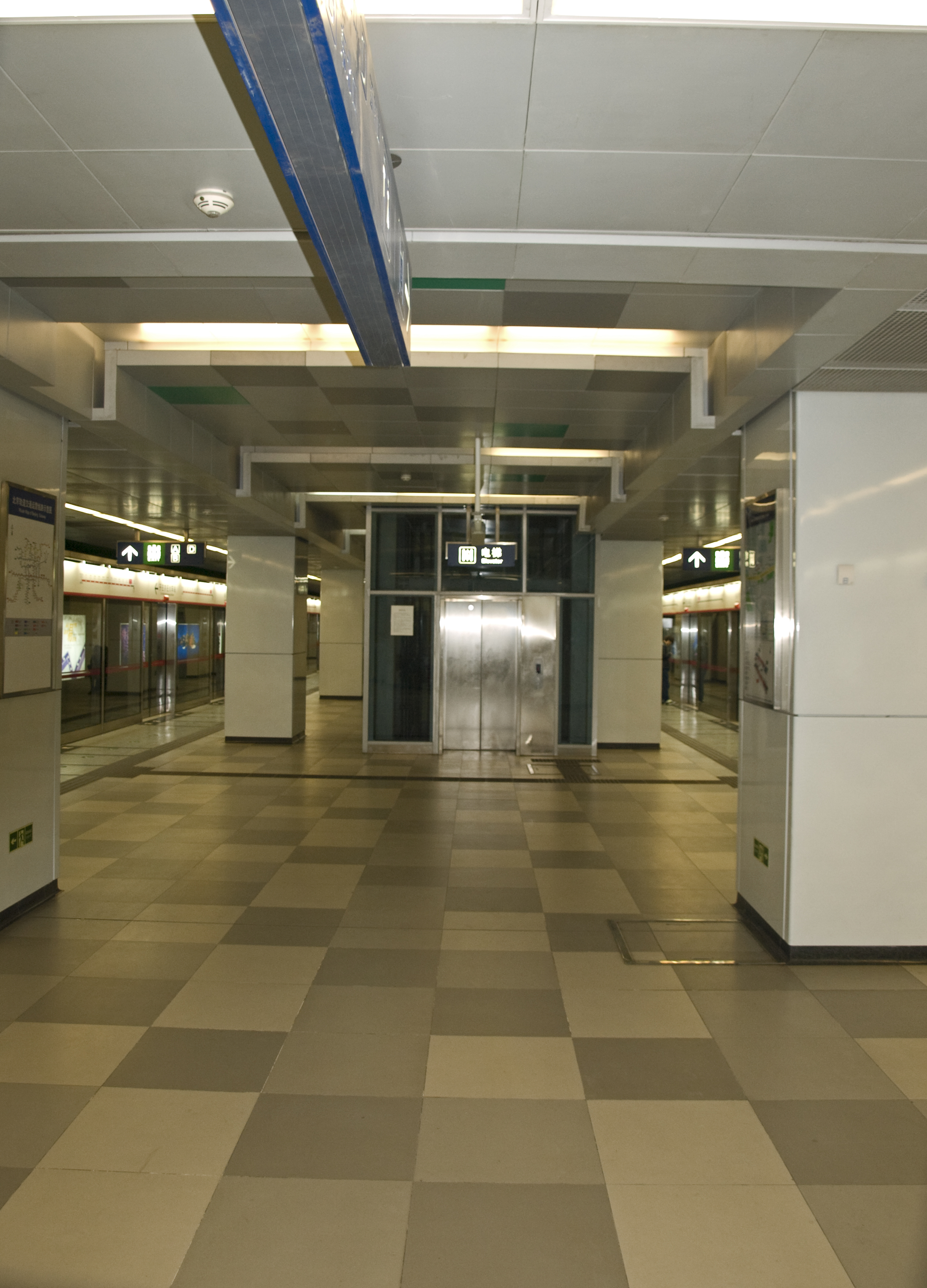 Xiaocun station, Beijing subway